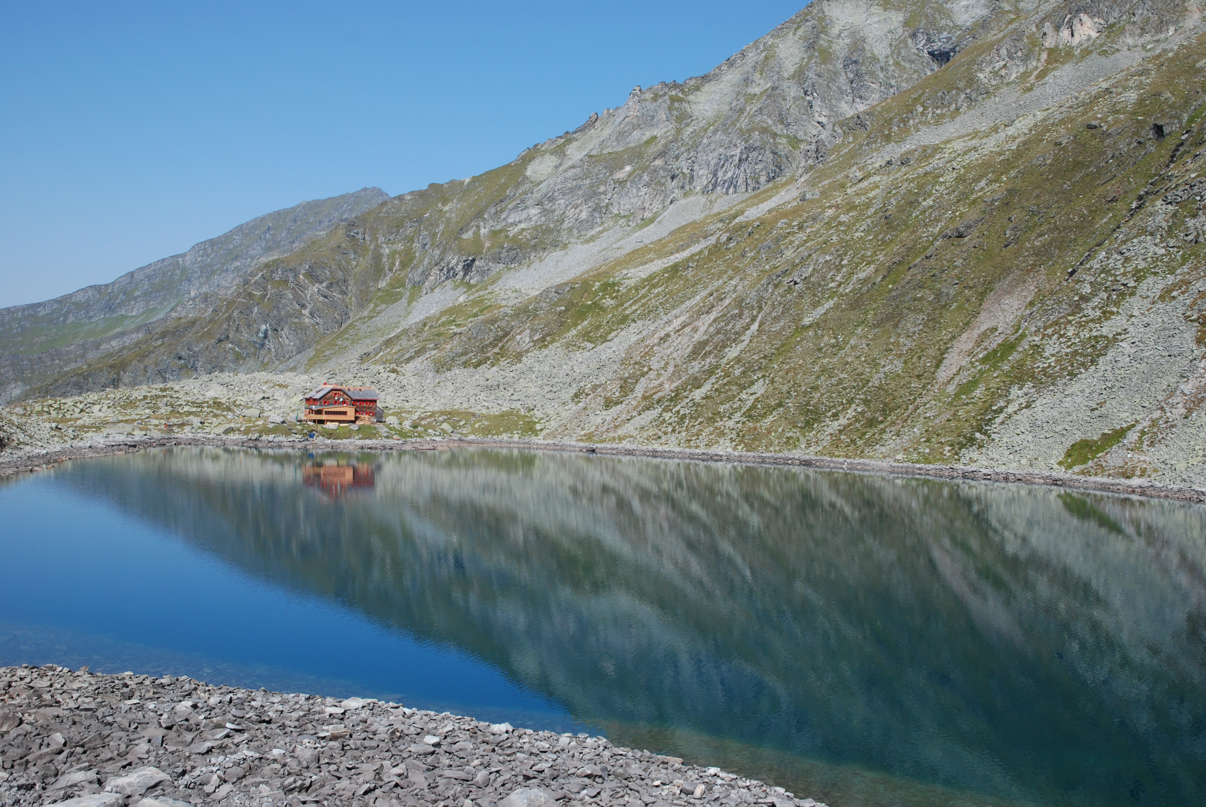 The Dösener See near Mallnitz, Carinthia